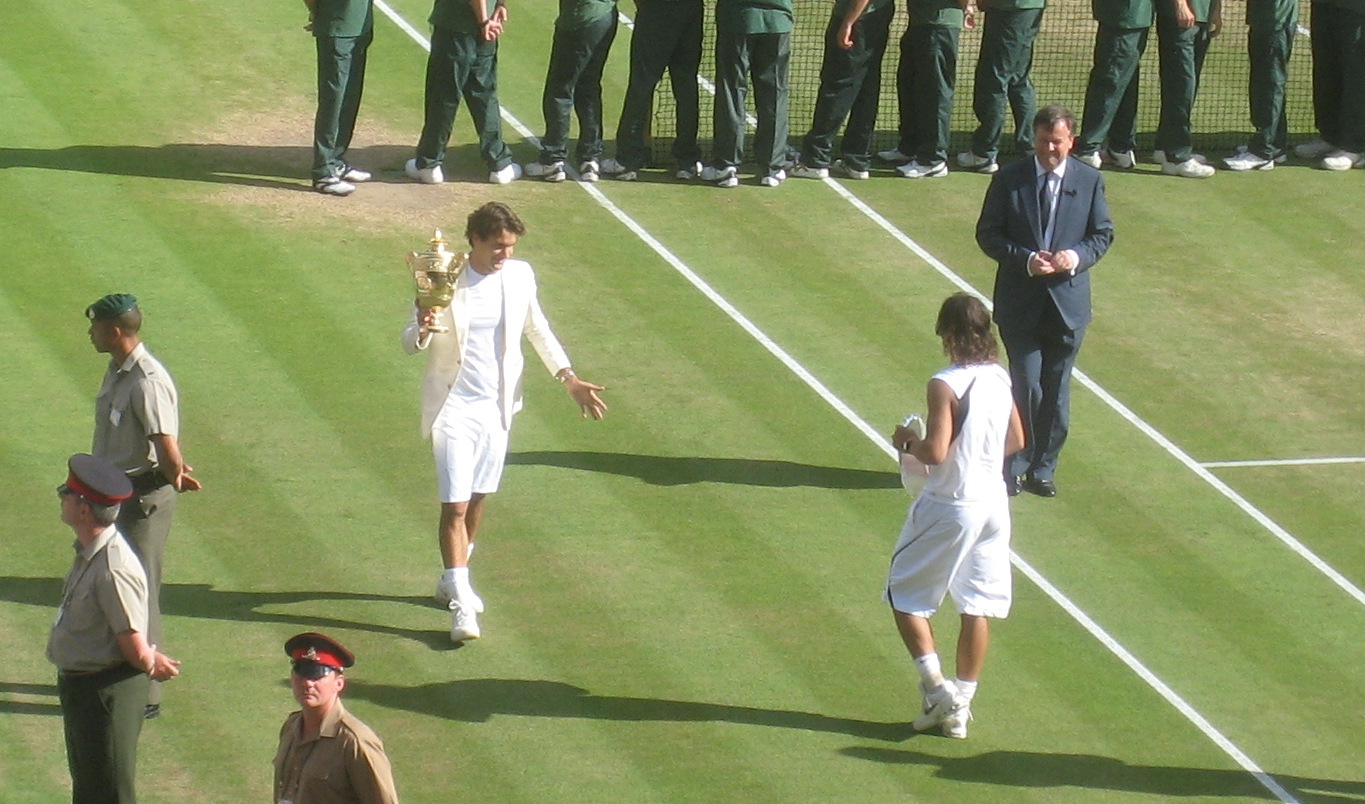 Parading the trophies